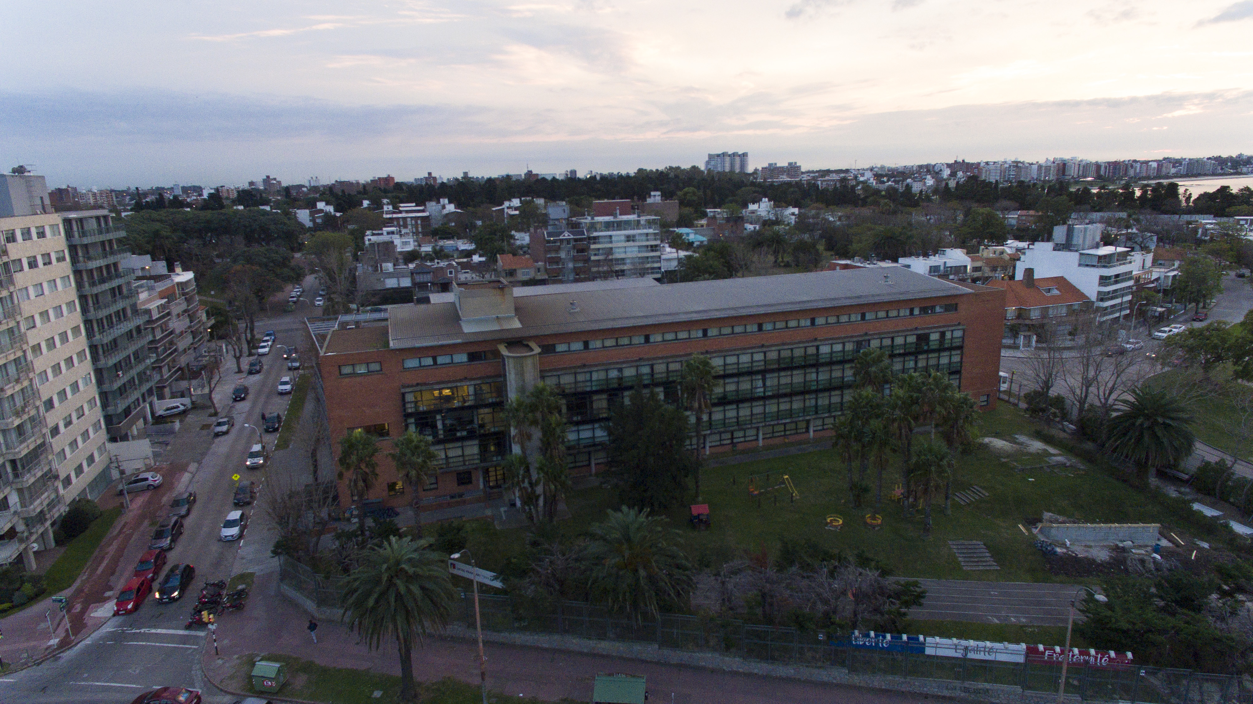 Lycée Français de Montevideo, Rambla, Montevideo Uruguay